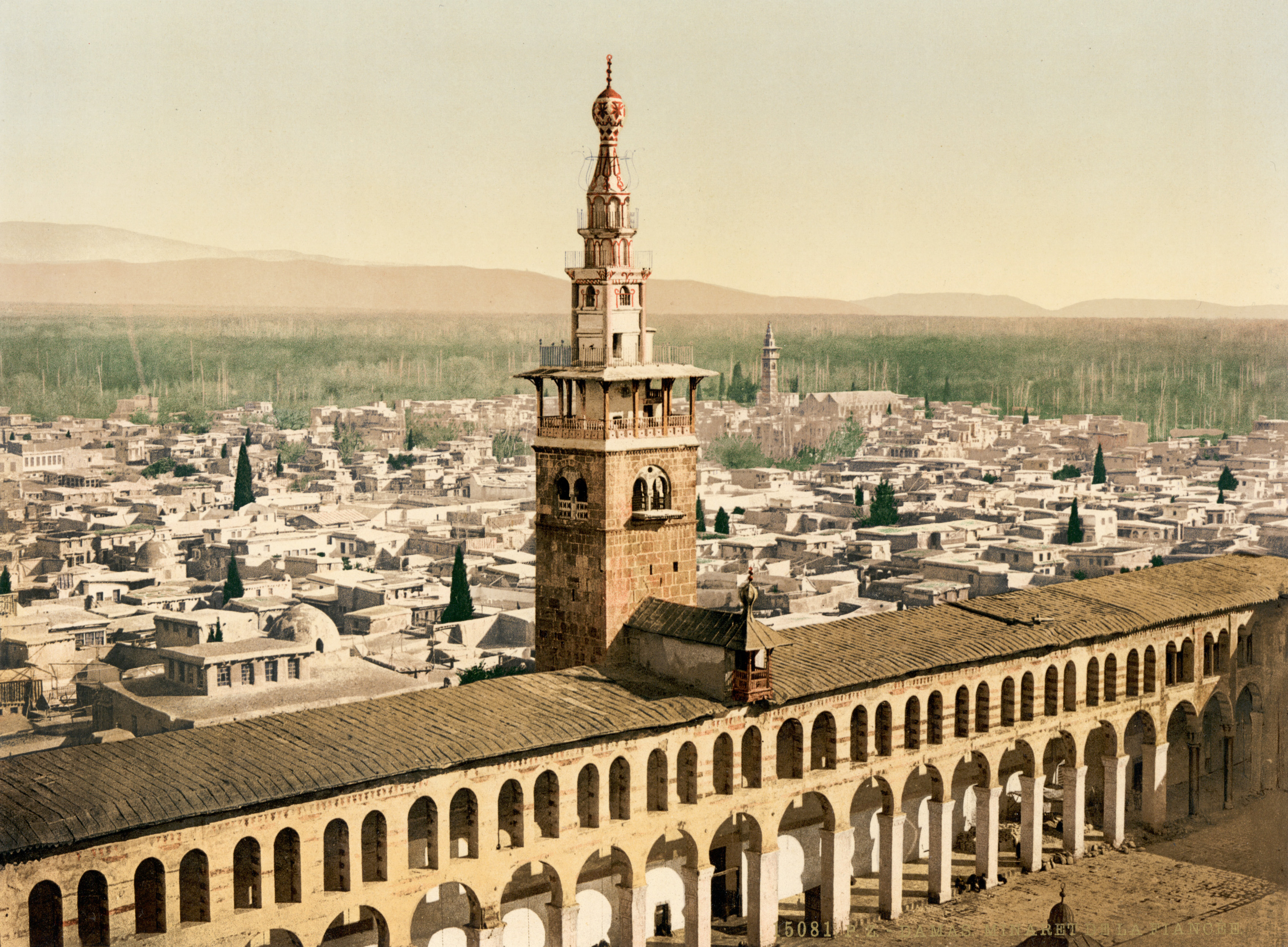 General view of Damascus with Minaret of the Bride of the Umayyad Mosque in the foreground, between 1890 and 1900. Photomechanical print (photocrom, color). Reproduction Number: LC-DIG-ppmsca-02668 (digital file from original) Call Number: LOT 13424, no. 029 [item] [P&P]